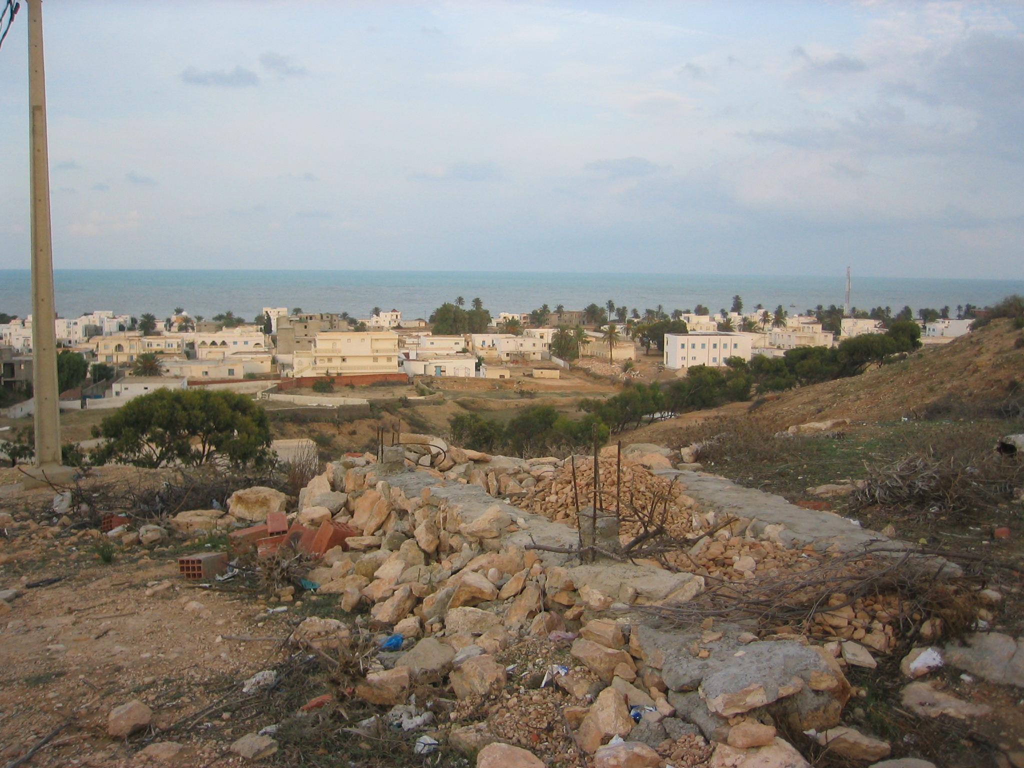 Zarzis, Tunisia